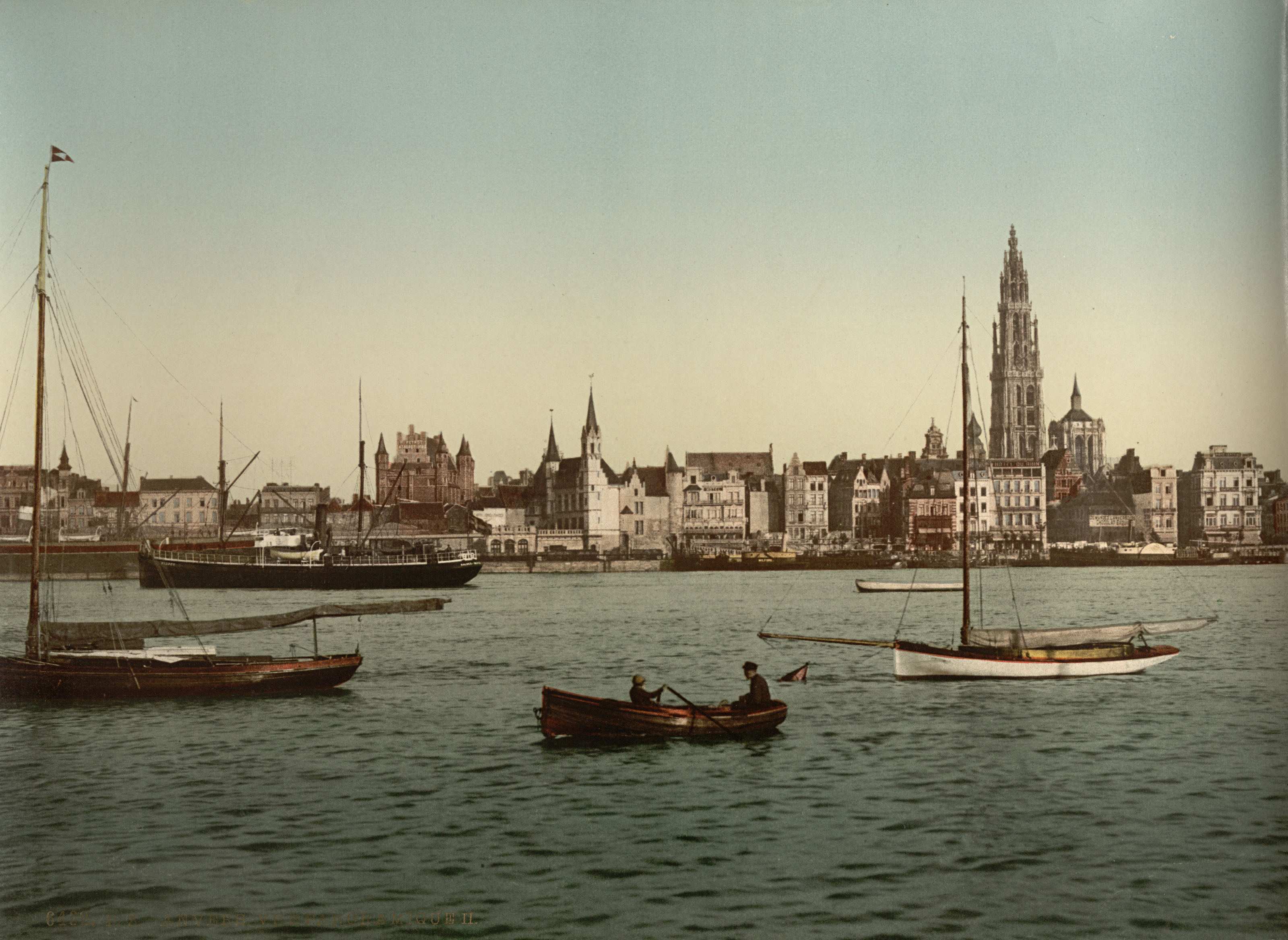 Antwerp seen across the river Scheldt (ca. 1890-1900)